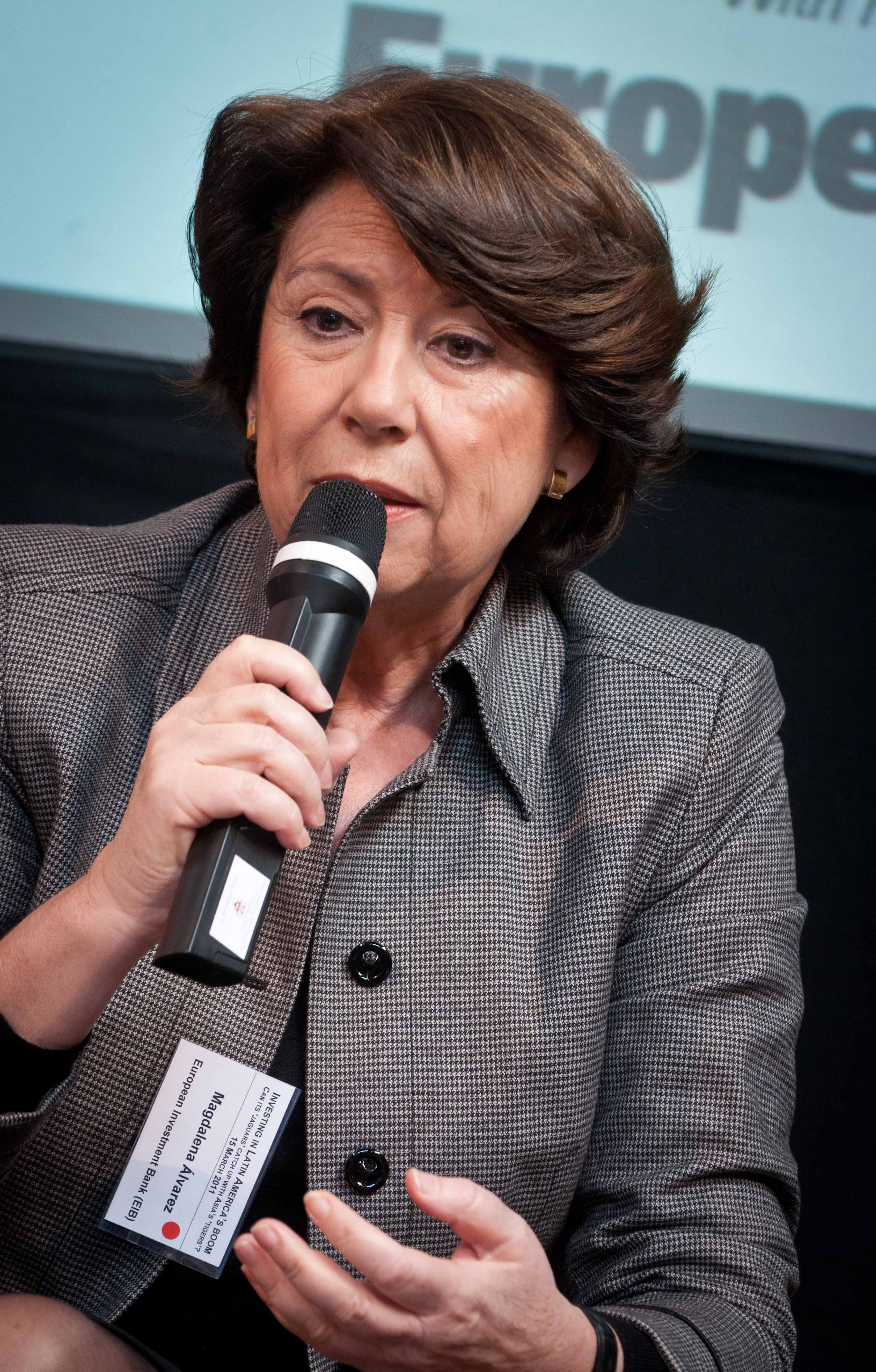 Vice-President of the European Investment Bank (EIB)